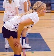 Liberty Volleyball, Dan Mccouy, Oct 5th, 2007, 1:20pm, Liberty Senior High School